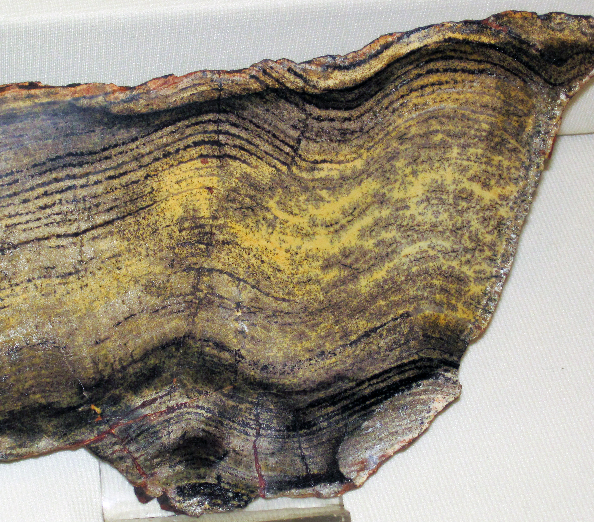 Stromatolite from the Precambrian of Australia. (Cranbrook Institute of Science collection, Bloomfield Hills, Michigan, USA) This is a sample from the oldest known definite fossil occurrence on Planet Earth. This is a stromatolite from the Paleoarchean of Western Australia. Stromatolites are large, layered structures built up by mats of cyanobacteria. They vary in appearance, ranging from slightly wrinkled horizontal laminations in sedimentary rocks to low mounds to prominent mounds to columnar structures and other forms. Stromatolites are most common in the Proterozoic fossil record. They are scarce today, but famous modern examples occur at Shark Bay, Western Australia. The oldest known examples are ~3.5 billion years old, from Western Australia - this is a specimen from that occurrence. Stratigraphy: stromatolitic-chert member, Strelley Pool Formation, middle to lower Paleoarchean, 3.35 to 3.46 Ga Locality: East Strelley Greenstone Belt, Pilbara Craton, Western Australia